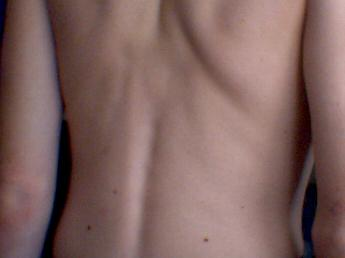 human back